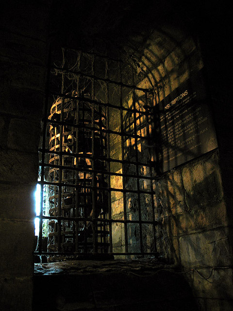 Down in the Dungeon The dungeon at Warwick Castle remains a dark and dank place. There are a number of inscriptions carved in the stone by the inmates. The inscription quoted on the black plaque was written by a 'MasTER JohN SMYTH GUNER TO HIS MAJESTYE' who was apparently held here from 1642 to 1645.